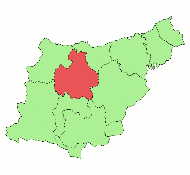 Urola Erdia region in the province of Gipuzkoa